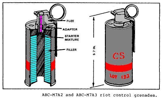 cs grenade